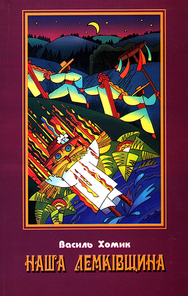 Обкладинка книги Василя Хомика ˮНаша Лемківщинаˮ. 2003